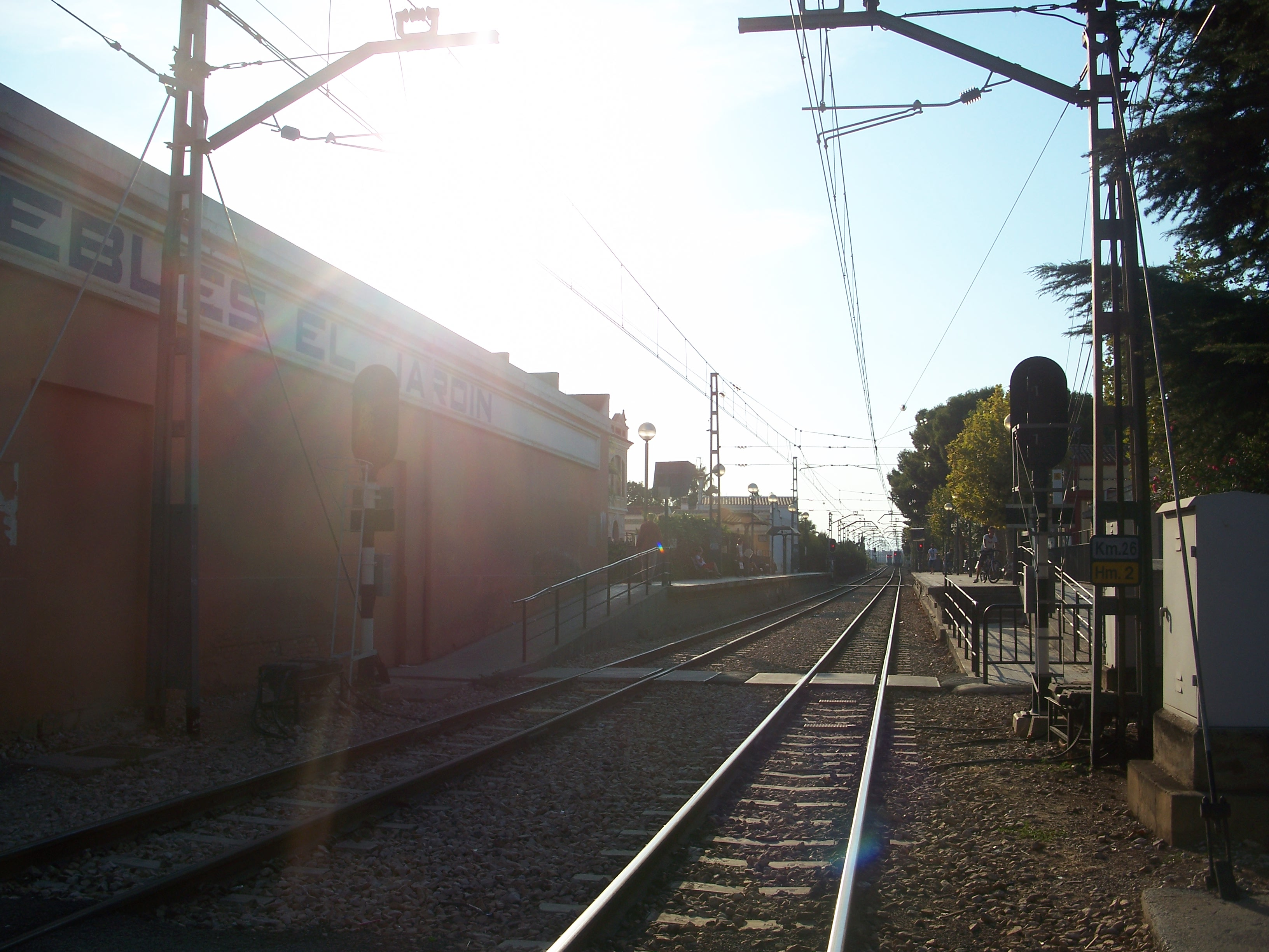 Línea_1_de_metrovalencia_en_Picanya